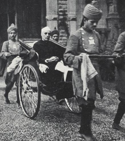 Jawaharlal Nehru during the Simla conference, July 1945